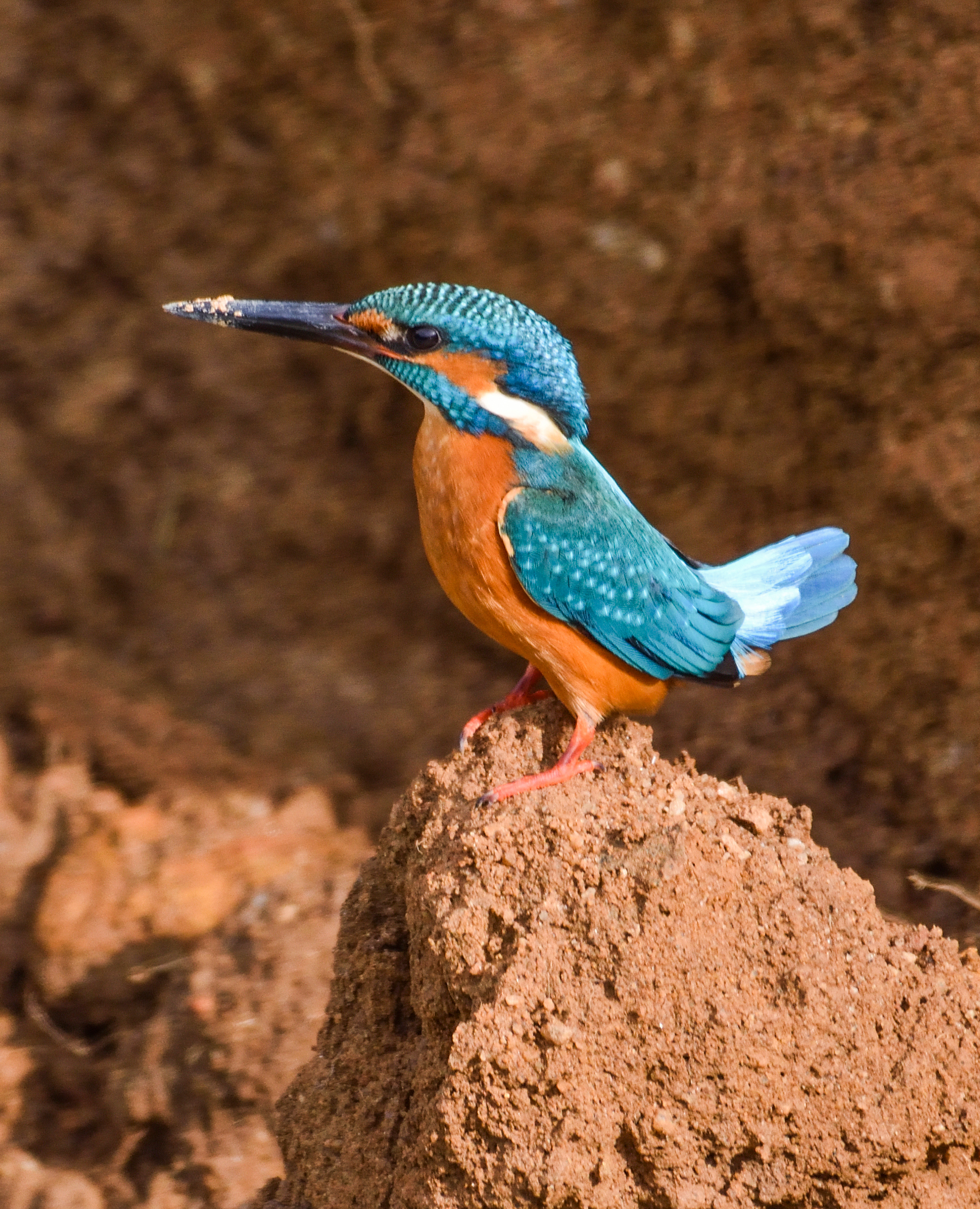 © ashiq s